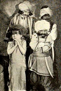 Still from the American film Ali Baba and the Forty Thieves (1918) with Morgiianna (Gertrude Messinger) and three of the thieves, from pages 16 and 17 of the February 1919 Film Fun.